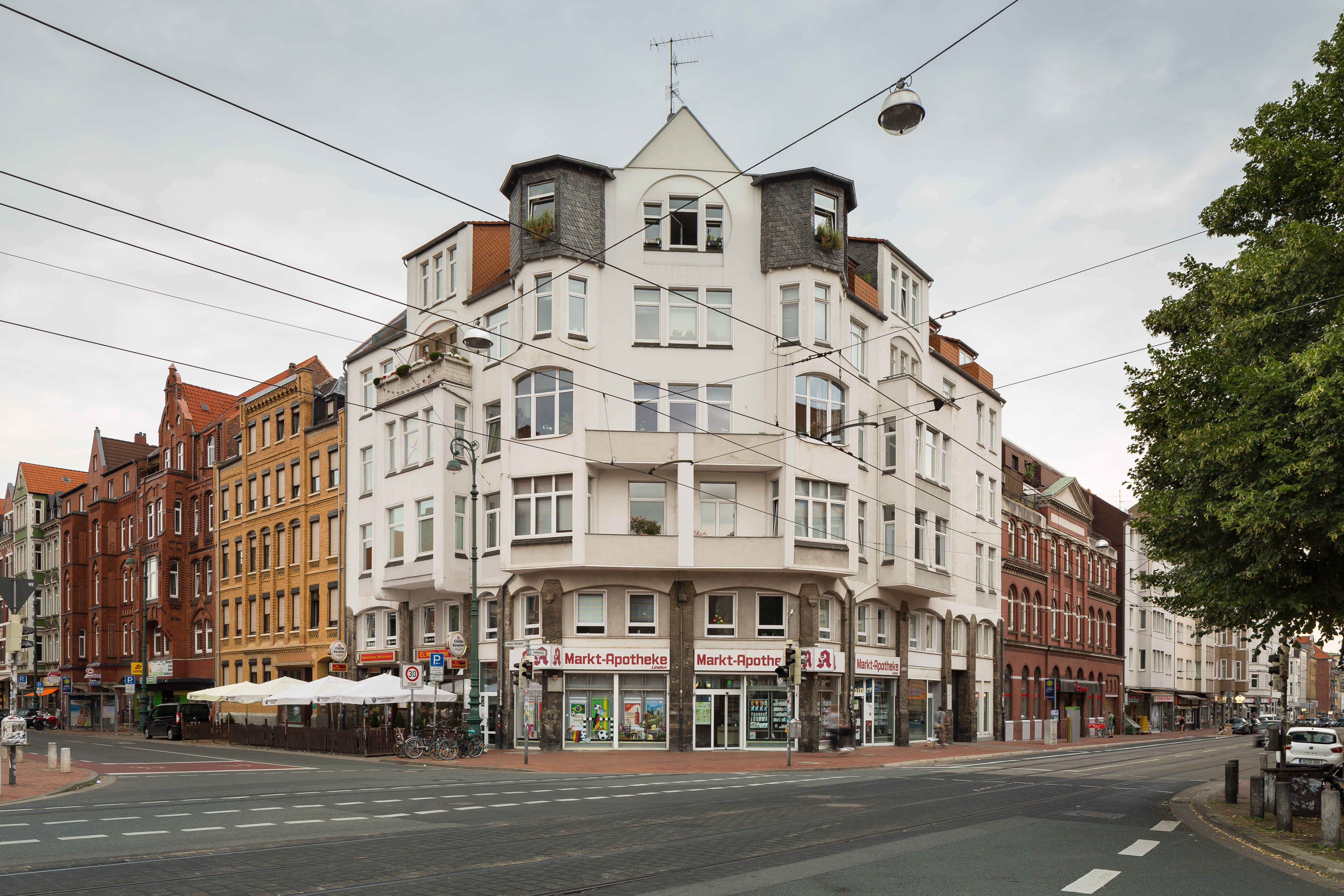 Apartment houses located at Lindener Marktplatz square in Linden district of Hanover, Germany. The left side of the white house is the birthplace of German-American political theorist Hannah Arendt.